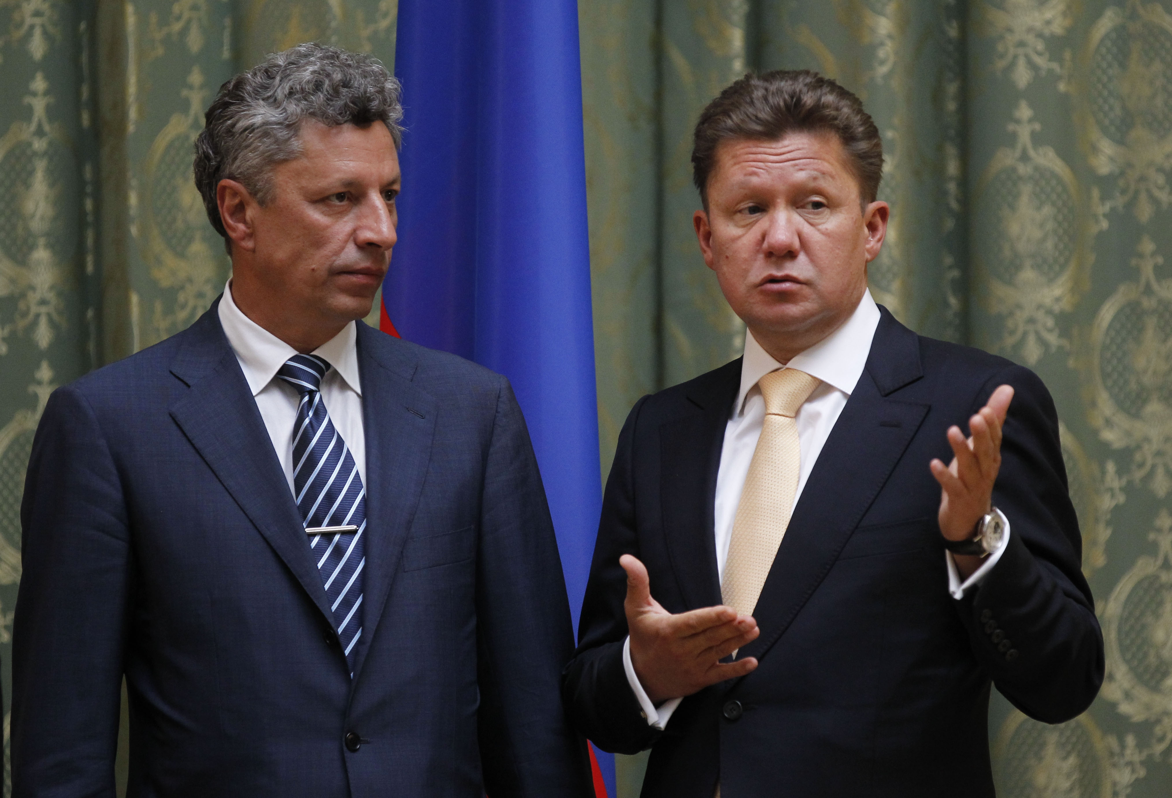 Minister of Energy and Coal Industry of Ukraine, Head of the Ukrainian parties in the Sub-commission on Fuel and Energy and the Sub-commission on Nuclear Energy and Materials Yuriy Boiko and Gazprom CEO Alexei Miller